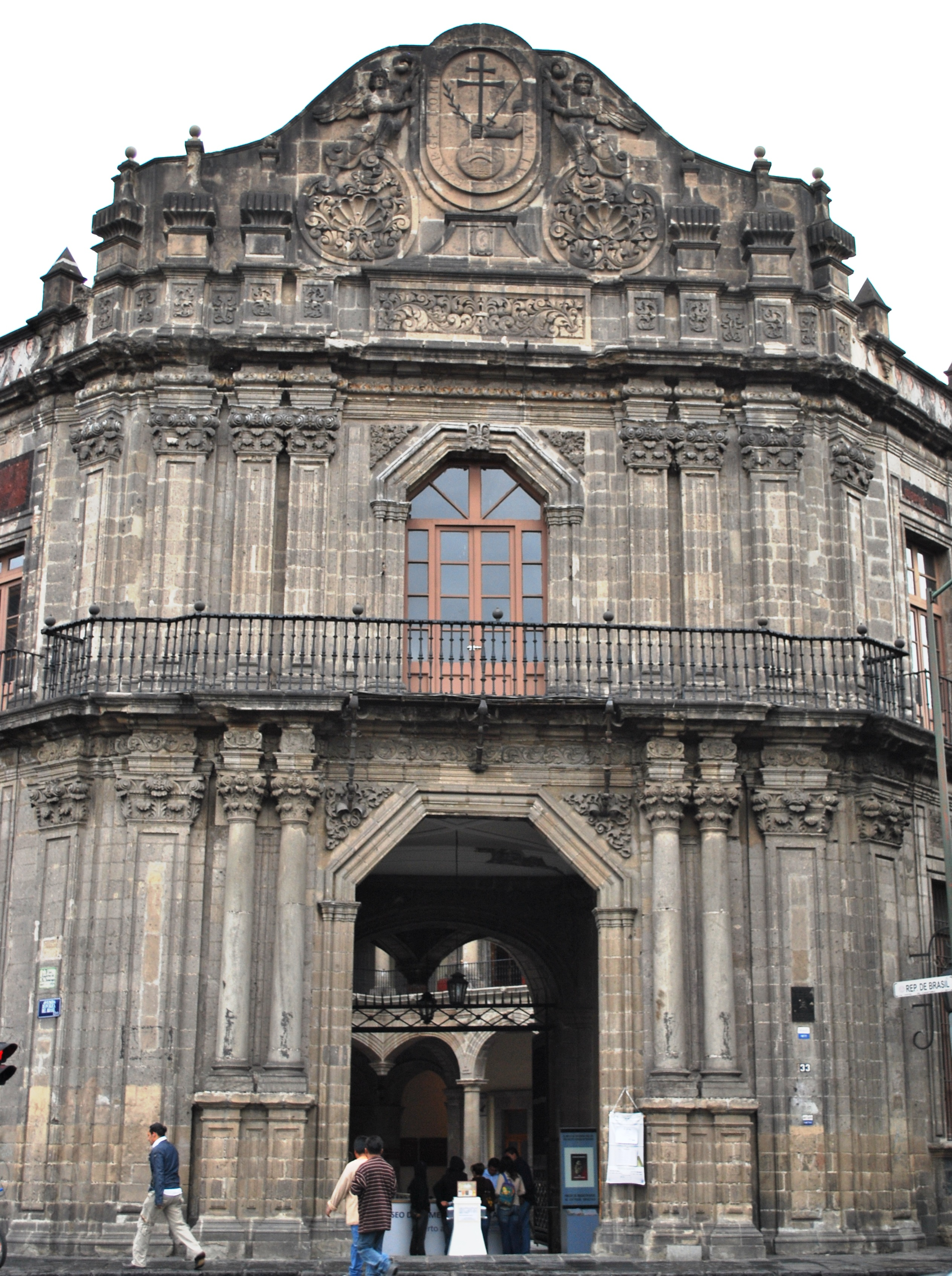 Close up of the Baroque facade and portal of the Palace of the Inquisition—Museum of Mexican Medicine — located in the historic center of Mexico City.